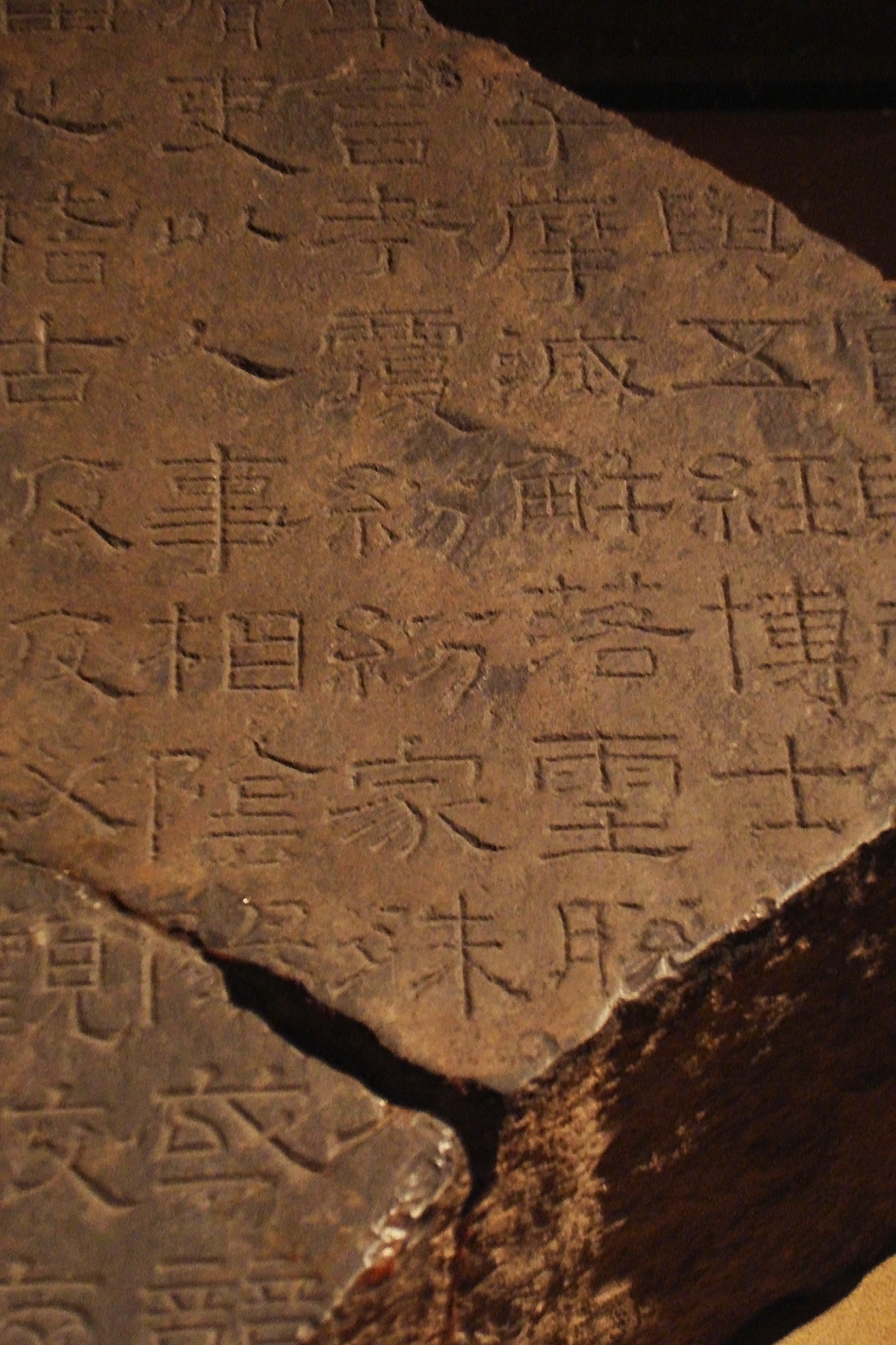 A fragment of the Xiping stone classics Eastern Han Dynasty (A.D. 25 - 220) The First Emperor of the Qin Dynasty, wishing to control political though, ordered the burning of many Confucian classics including the Book of Songs, the Book of History, the Book of Changes, the Book of Rites, the Spring and Autumn Annals, the Analects and the commentary of Gong Yang. These classics were carved in stone in A.D. 172 - 178, and erected at the Imperial College in Luoyang in an attempt to settle differing interpretations of Confucian classics.